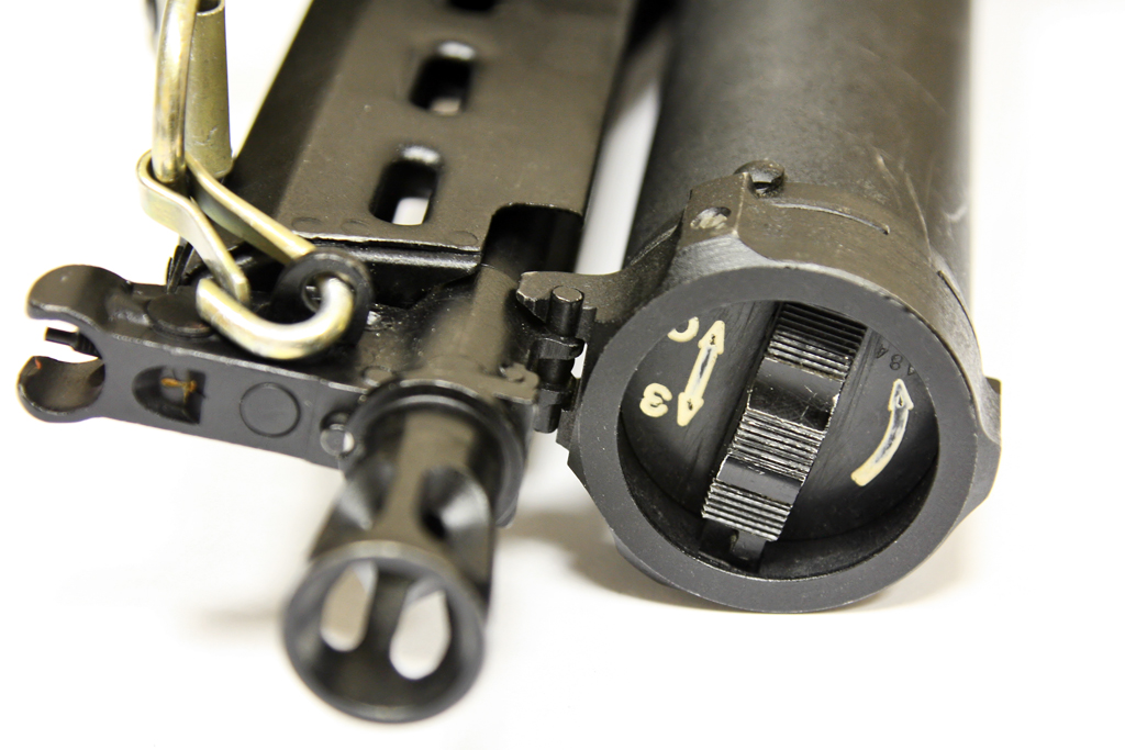 Front view of 9mm submachine gun PP-19 Bizon magazine.